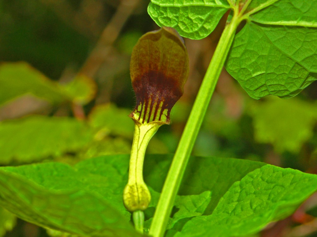 Aristolochia rotunda - Benedicta, Genova, Italy